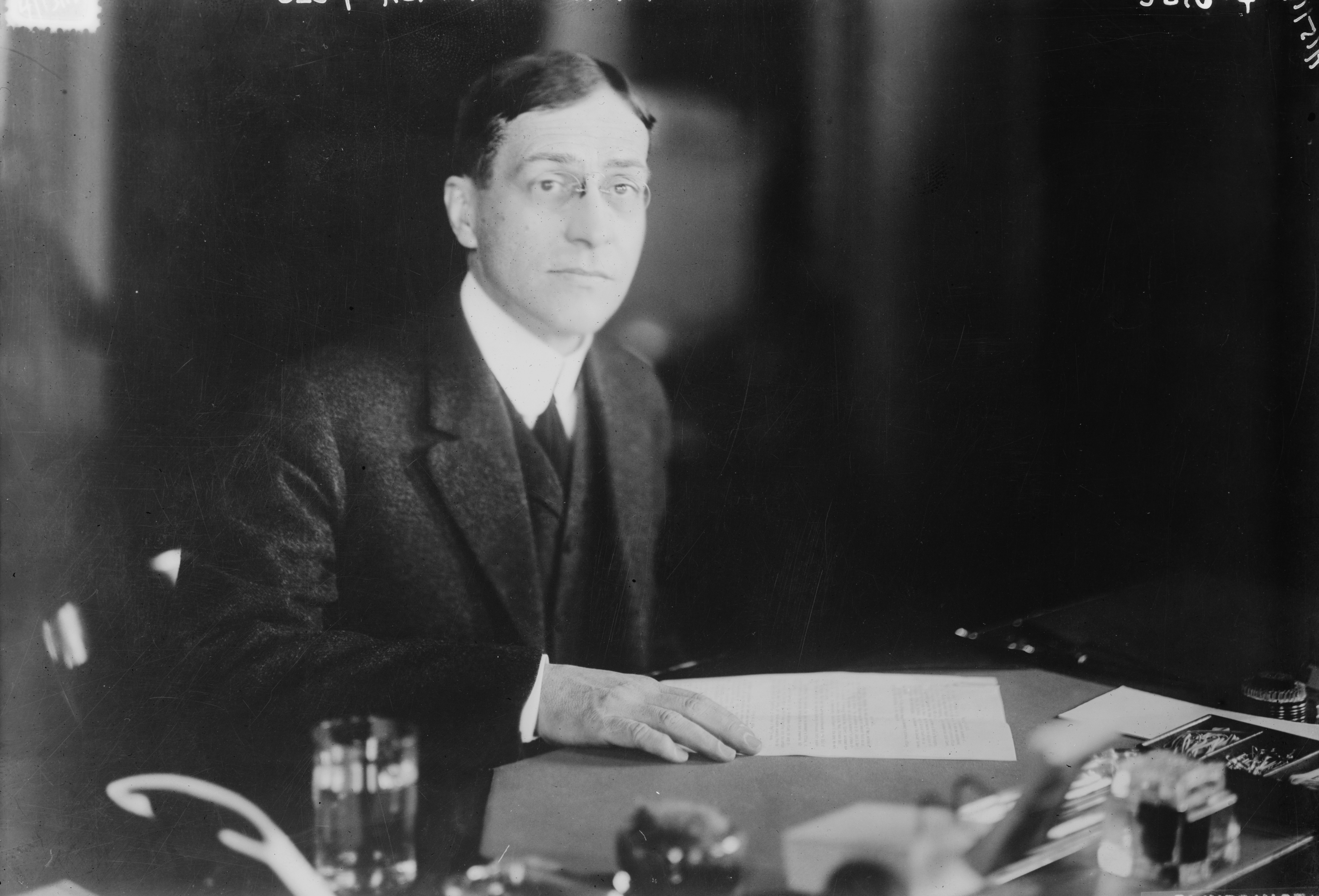 Secy Newton D. Baker